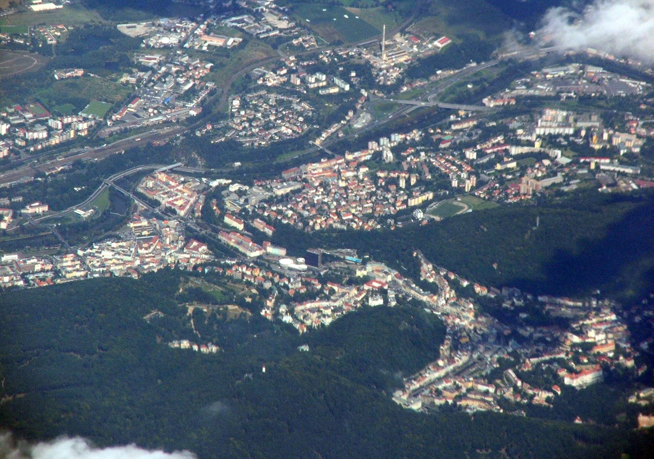 Aerial view of Karlovy Vary-Karlsbad, Czechia